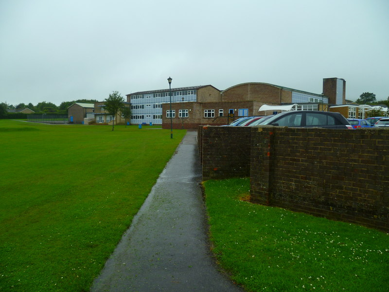 The Orange Way in Dorset and Somerset (68)